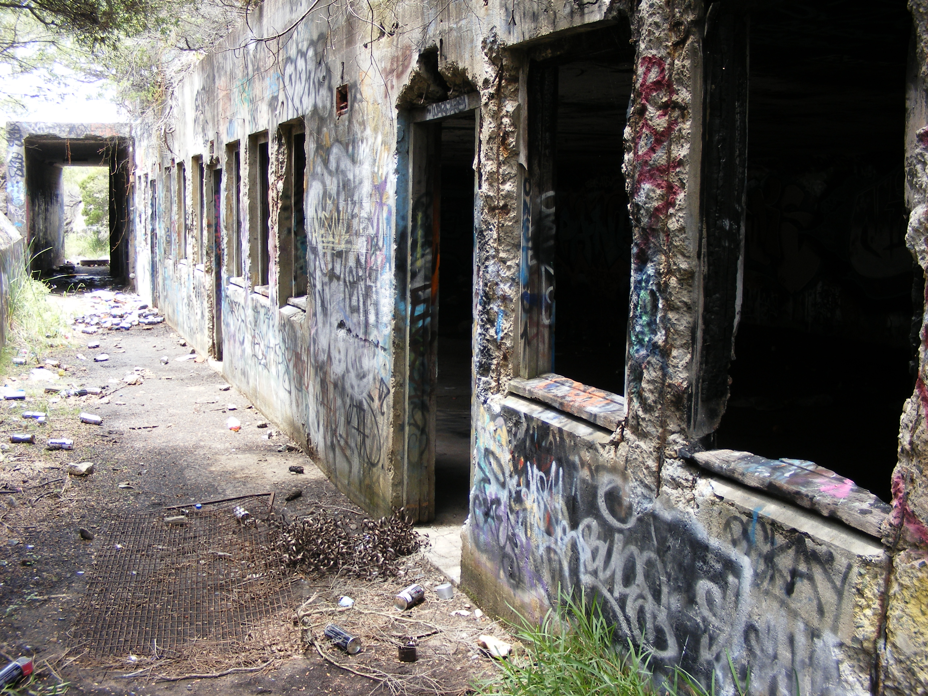 Malabar Battery : Barracks located alongside the tram line and adjacent to the four story observation post.